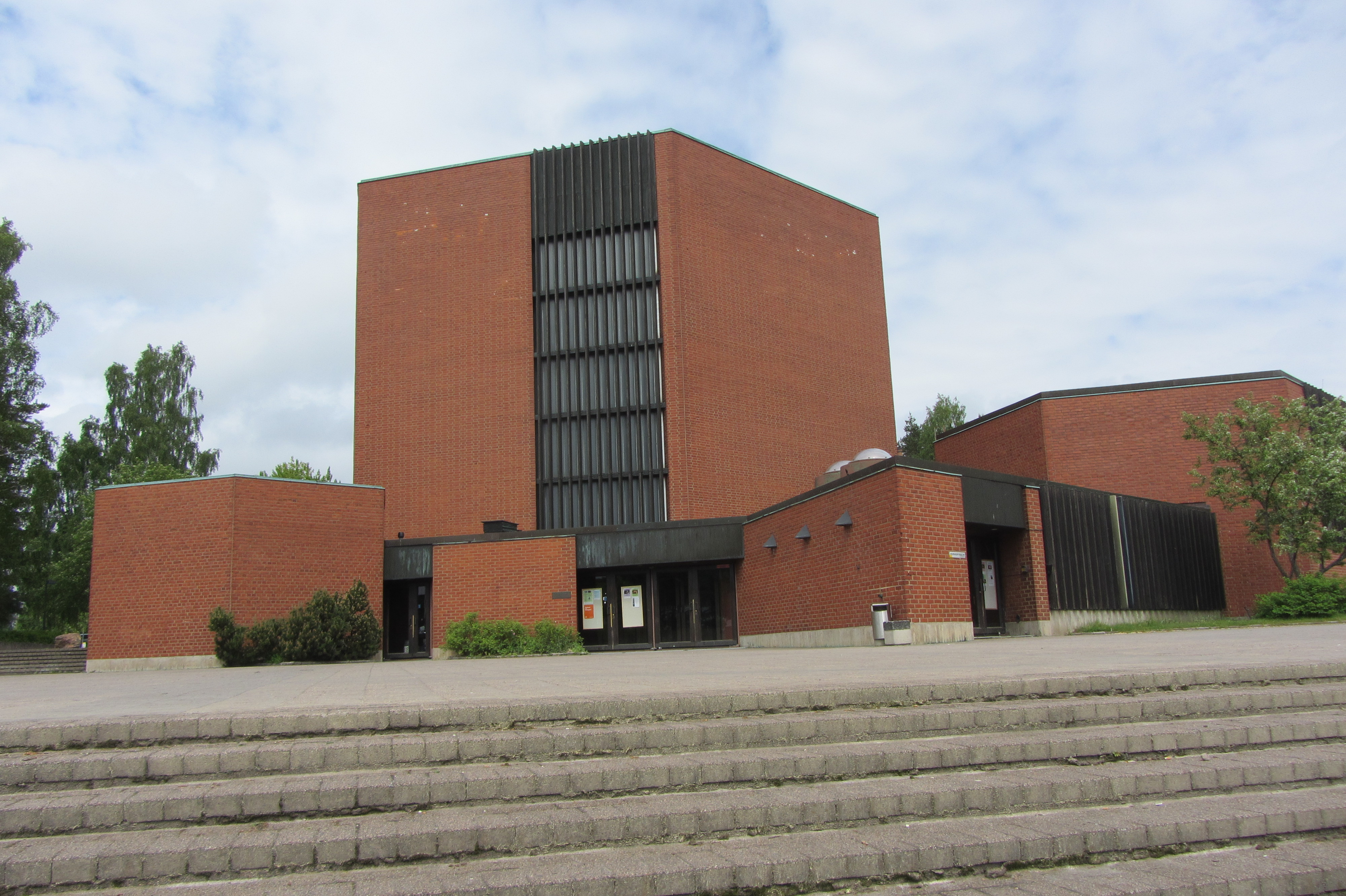 Roihuvuori Church in Helsinki, Finland